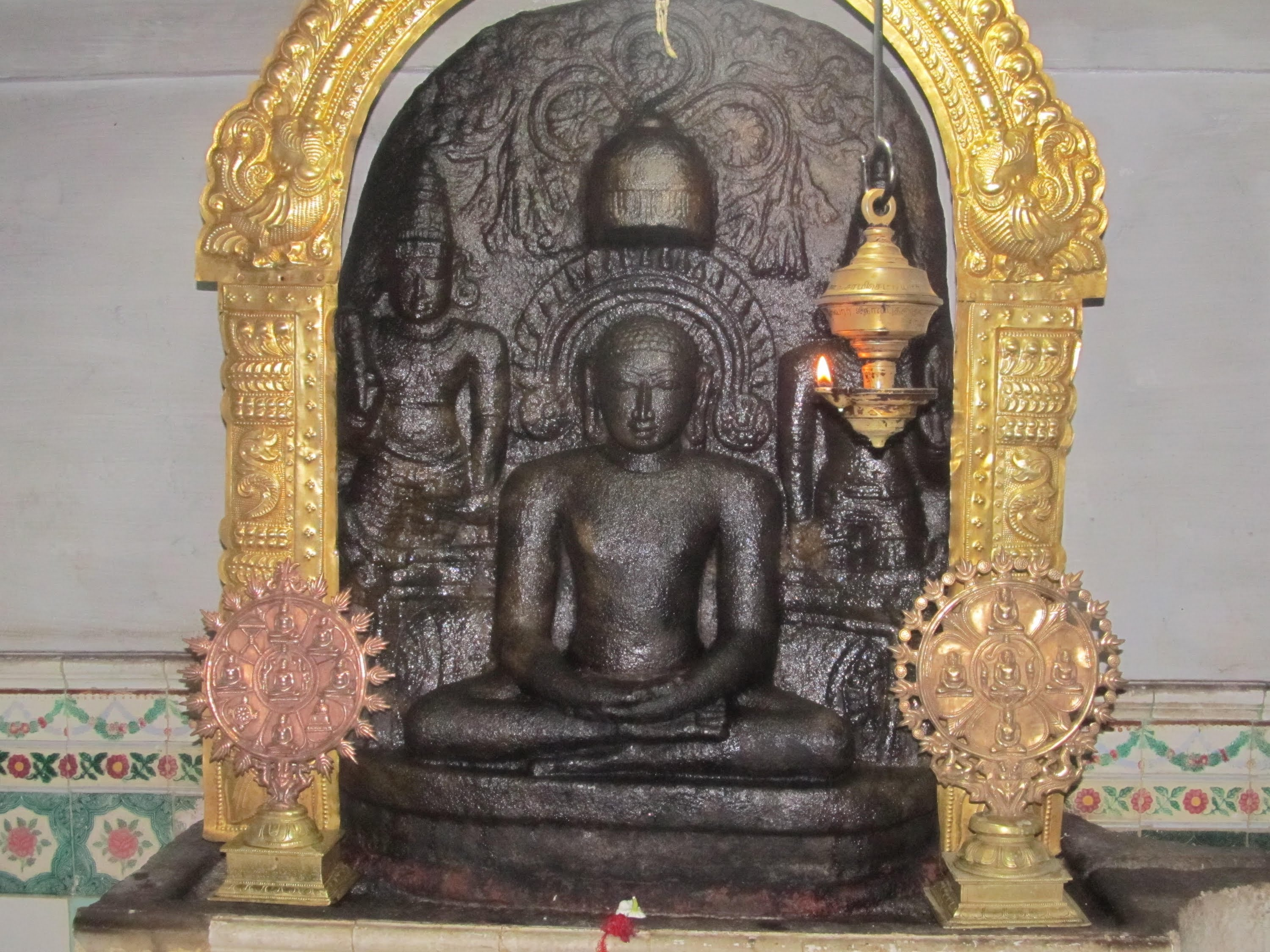 Moolavar Of Alagramam Jain Temple 1008 Shri Adinath Bhagwan